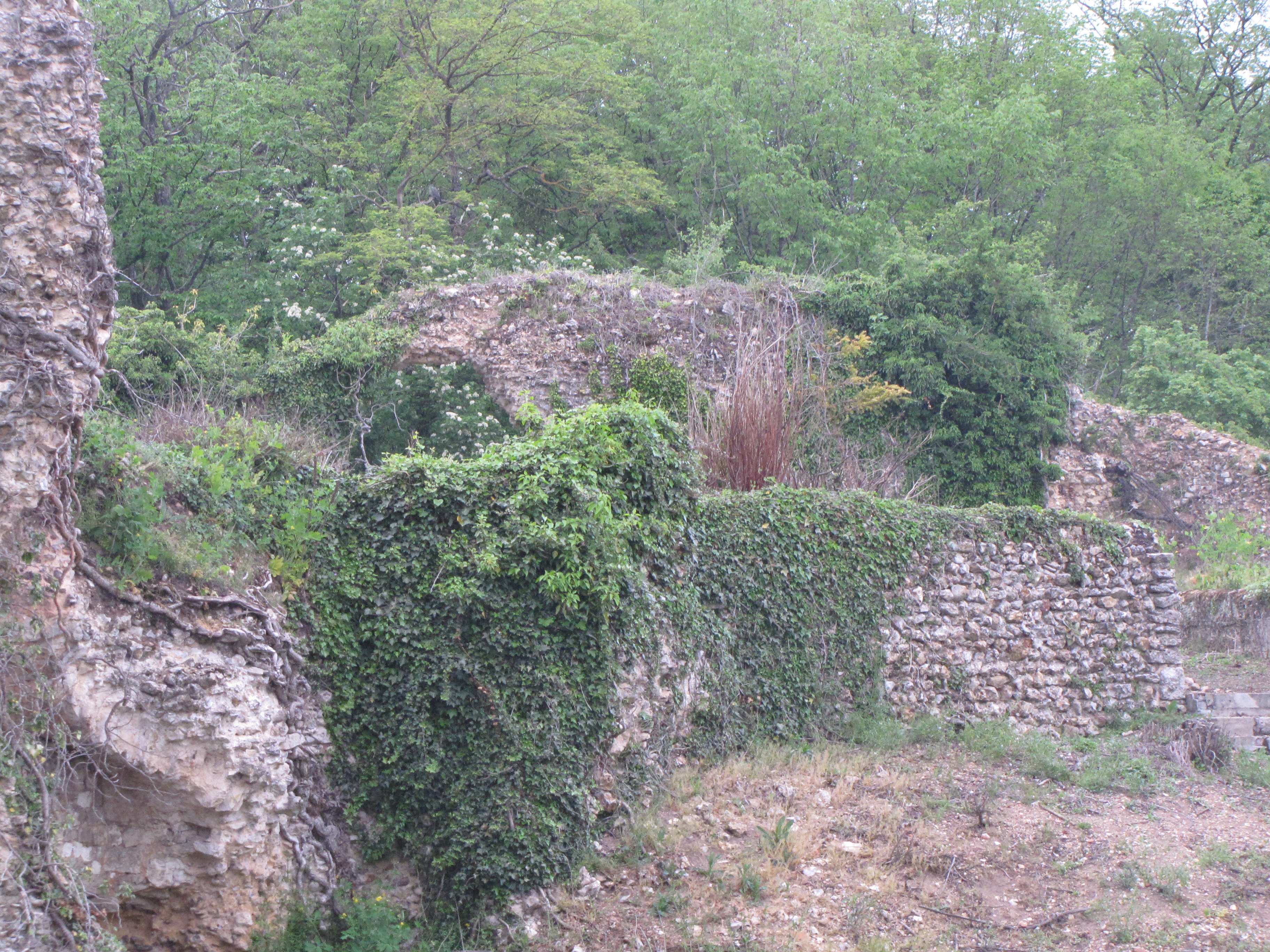 Saint-Maurice-sur-Aveyron, Loiret, région Centre, France. L'Infernat d'en haut ("Upper Infernat", sort of "Upper Enclosure") : north side of the champ de foire, the only one of the two castles in Saint-Maurice, that still shows some remains. Very steep moat.